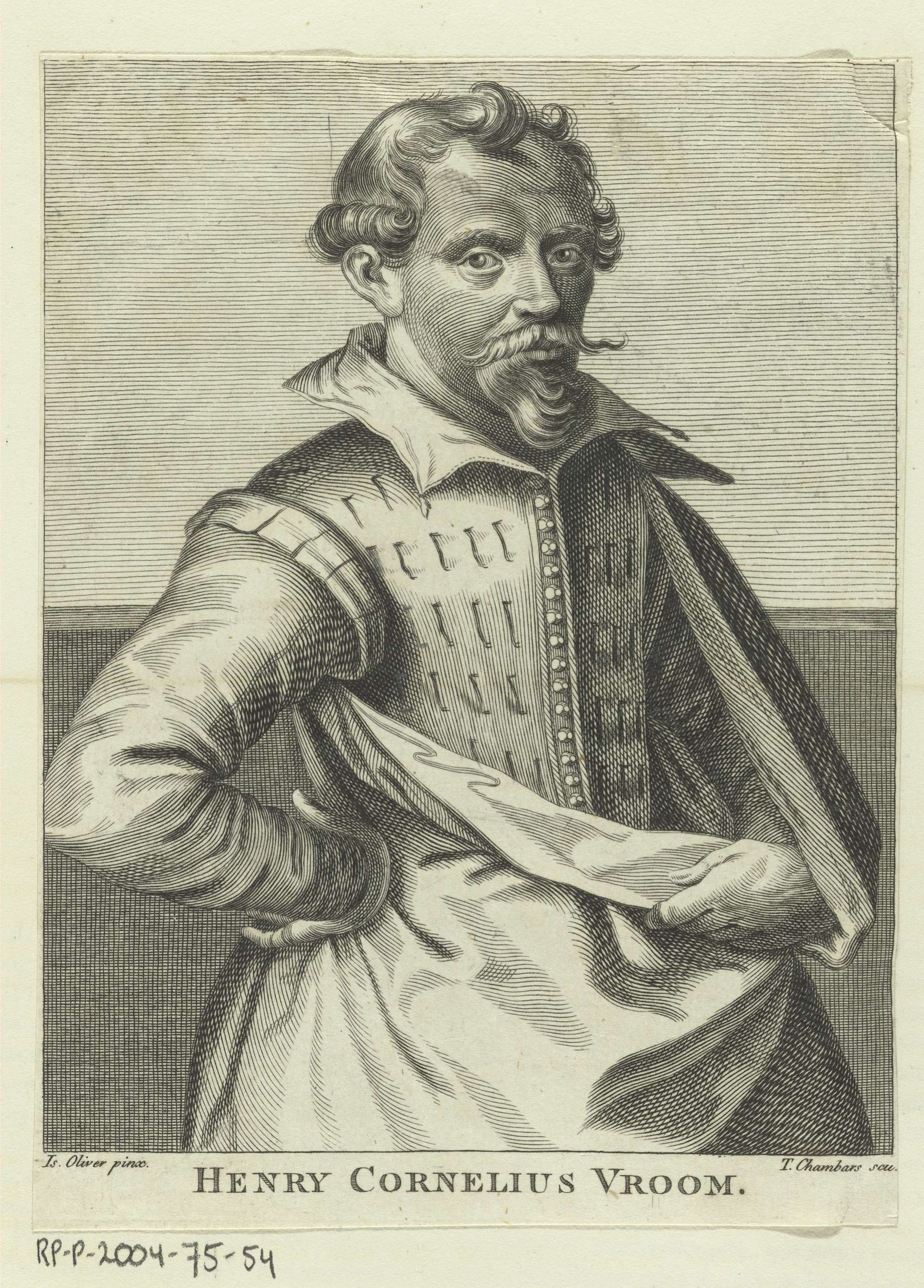 Title: H. Walpole, Anecdotes of painting in England, 1762 (serietitel) Description: Ingeplakt in: A dictionary of painters, from the revival of the art to the present period, by the Rev. M. Pilkington, A.M.. A new edition, with considerable alteration, additions, an appendix, and an index, by Henry Fuseli, R.A., Londen 1805, deel IV/tegenover p.634 Creator: prentmaker: Chambars, Thomas; uitgever: Walpole, Horace Contributor: Oliver, Isaac (naar schilderij van); Aankoop uit het F.G. Waller-Fonds Date: derde kwart 18e eeuw Date of creation: 1762 - 1762 Type: prent; portret Format: image/jpeg; hoogte 166 mm; breedte 122 mm; papier Identifier: RP-P-2004-75-54; RM0001.COLLECT.422791 Is part of: RP-P-2004-75 Language: nl Publisher: Rijksmuseum, Amsterdam Data provider: Rijksmuseum Provider: Rijksmuseum Providing country: Netherlands